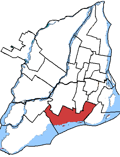 Map of the Notre-Dame-de-Grâce—Lachine electoral district. Based on Earl Andrew's maps, created by SimonP.